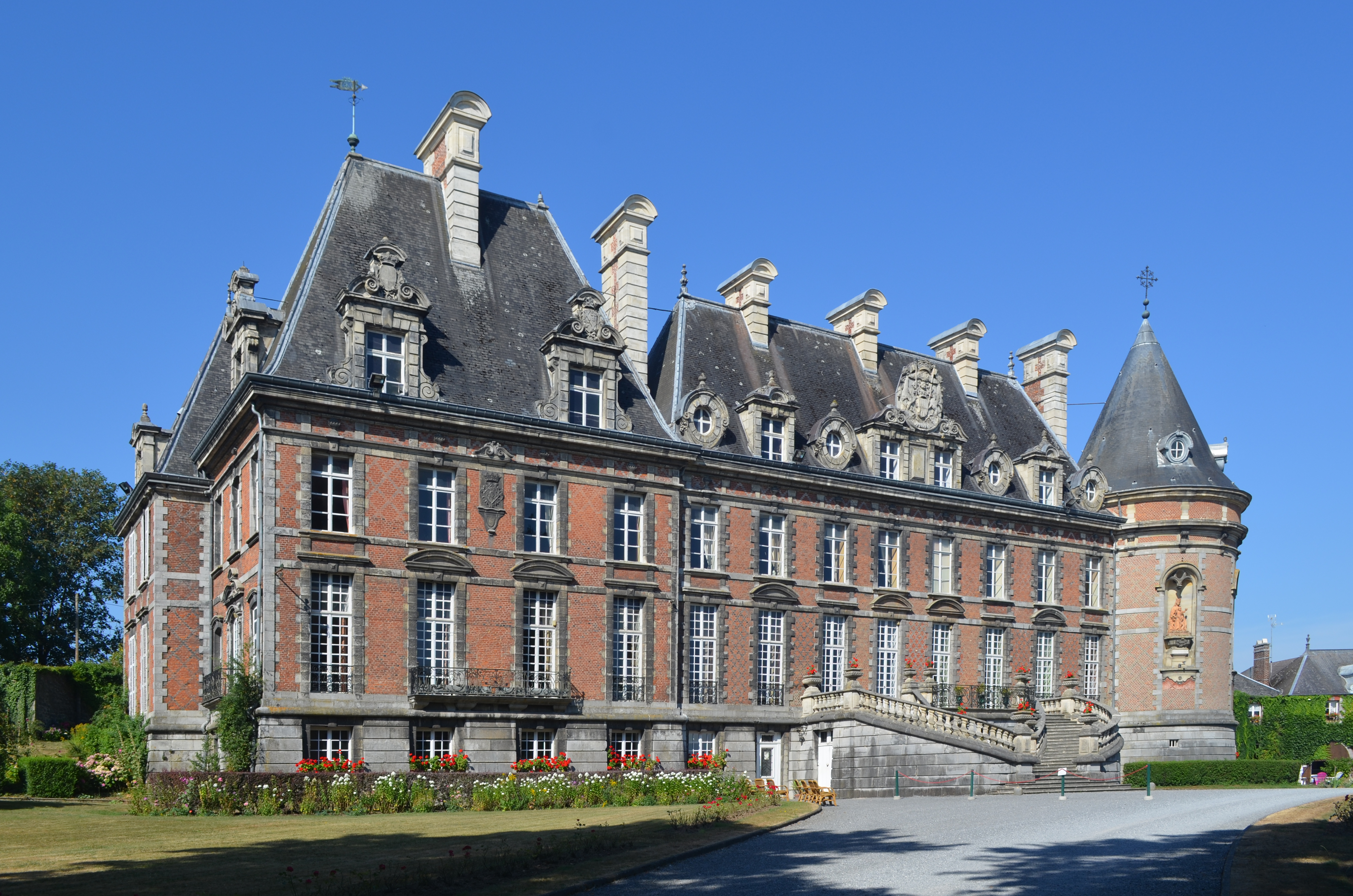 Castel of the house of Merode in Trélon (France).